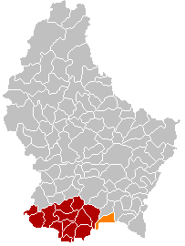 Own edit of Kanton Esch-sur-AlzetteLocatie.png